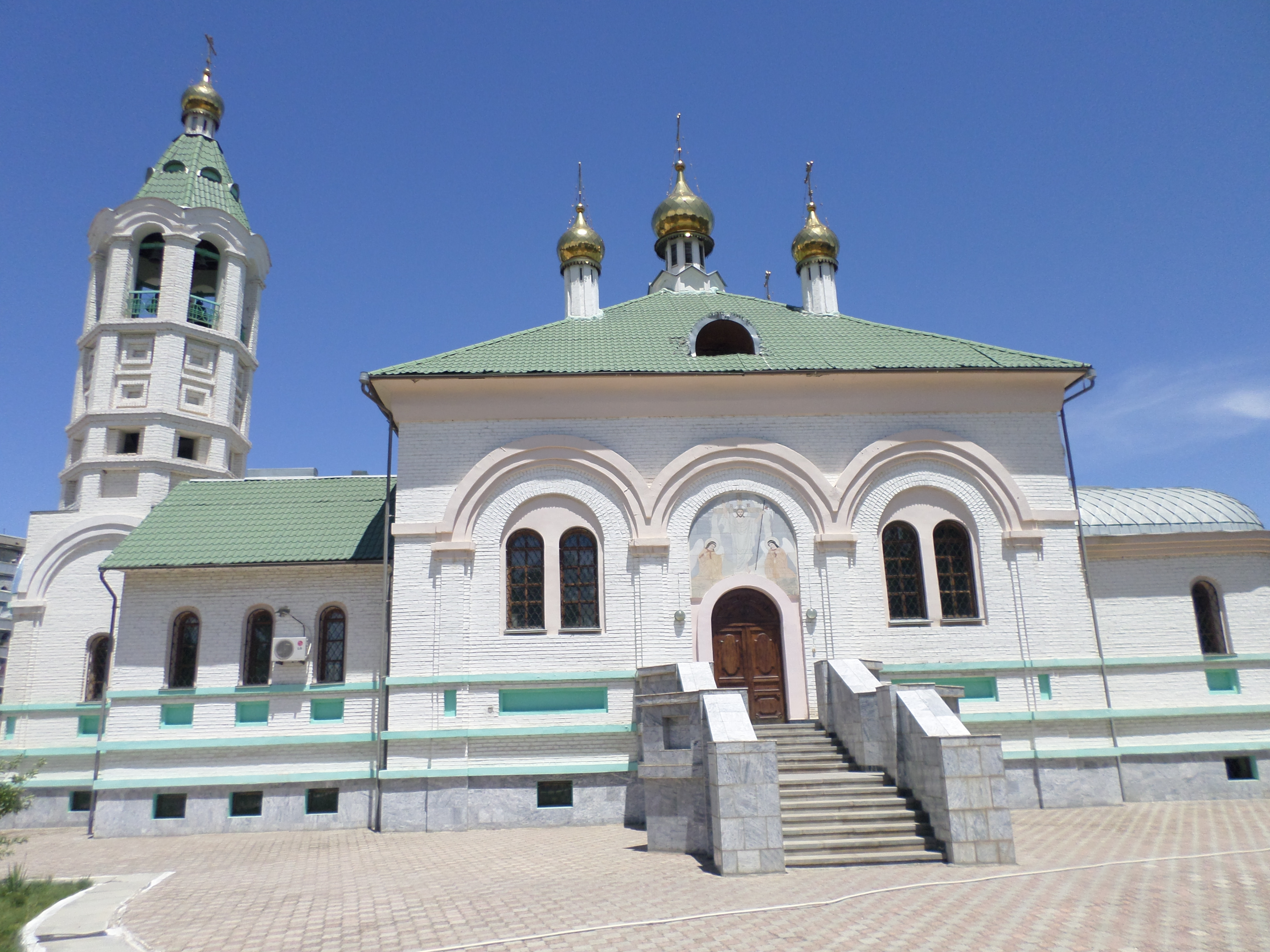 Church of St. Sergiuy Radonezhkogo in Navoi